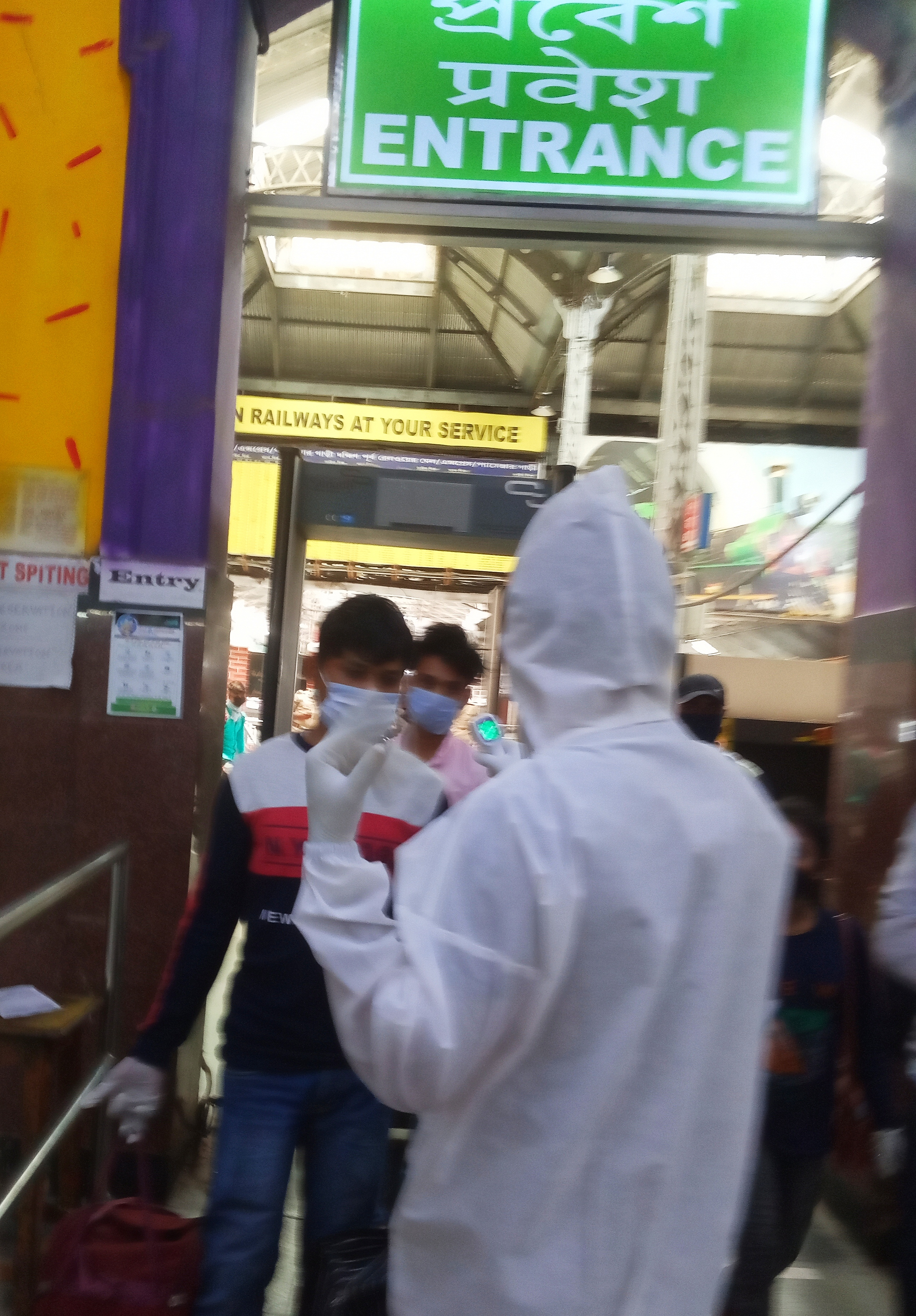 Thermal scanners at Howrah station during COVID 19 pandemic in West Bengal